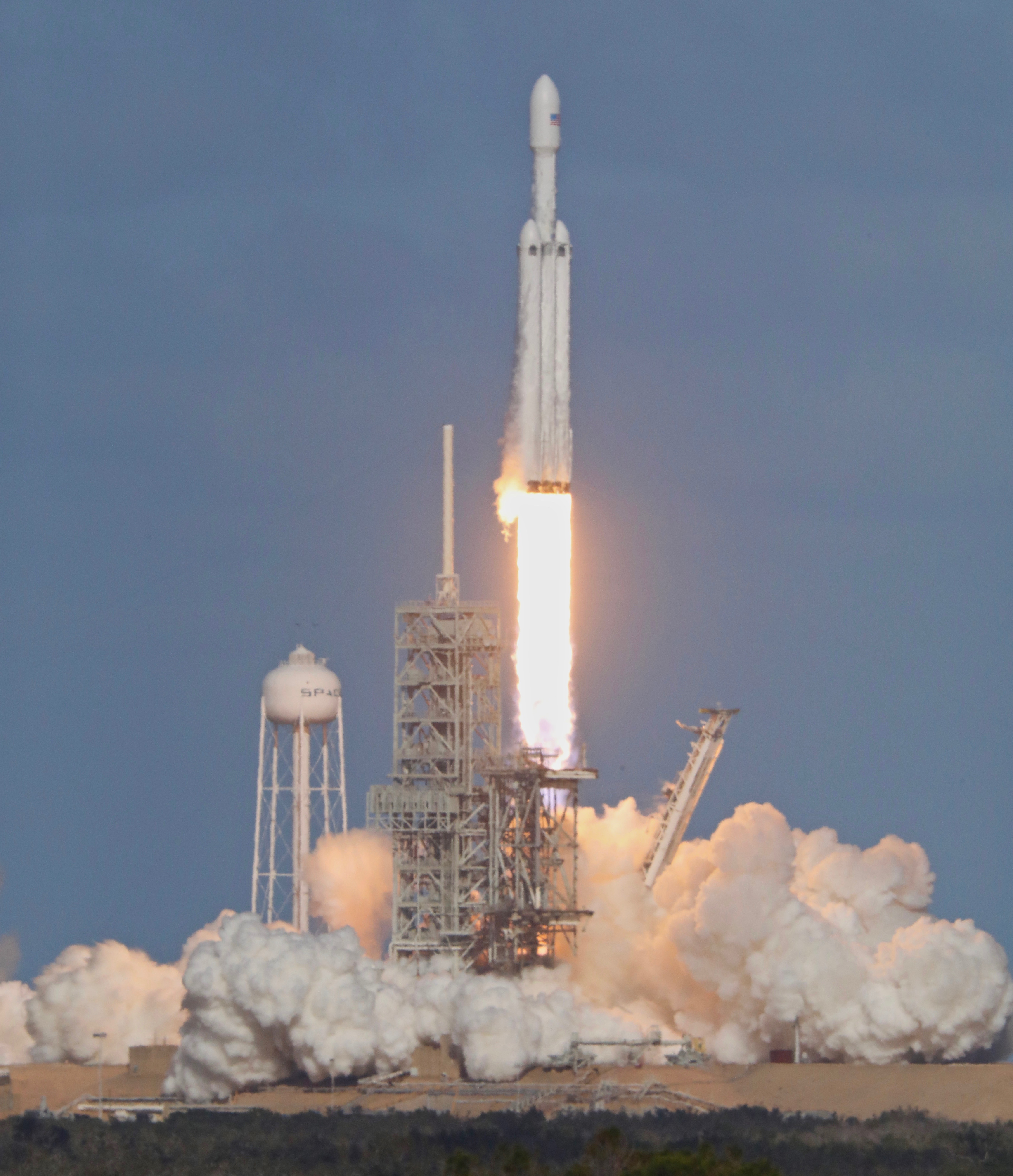 Falcon Heavy launches for the very first time from launch pad LC-39A